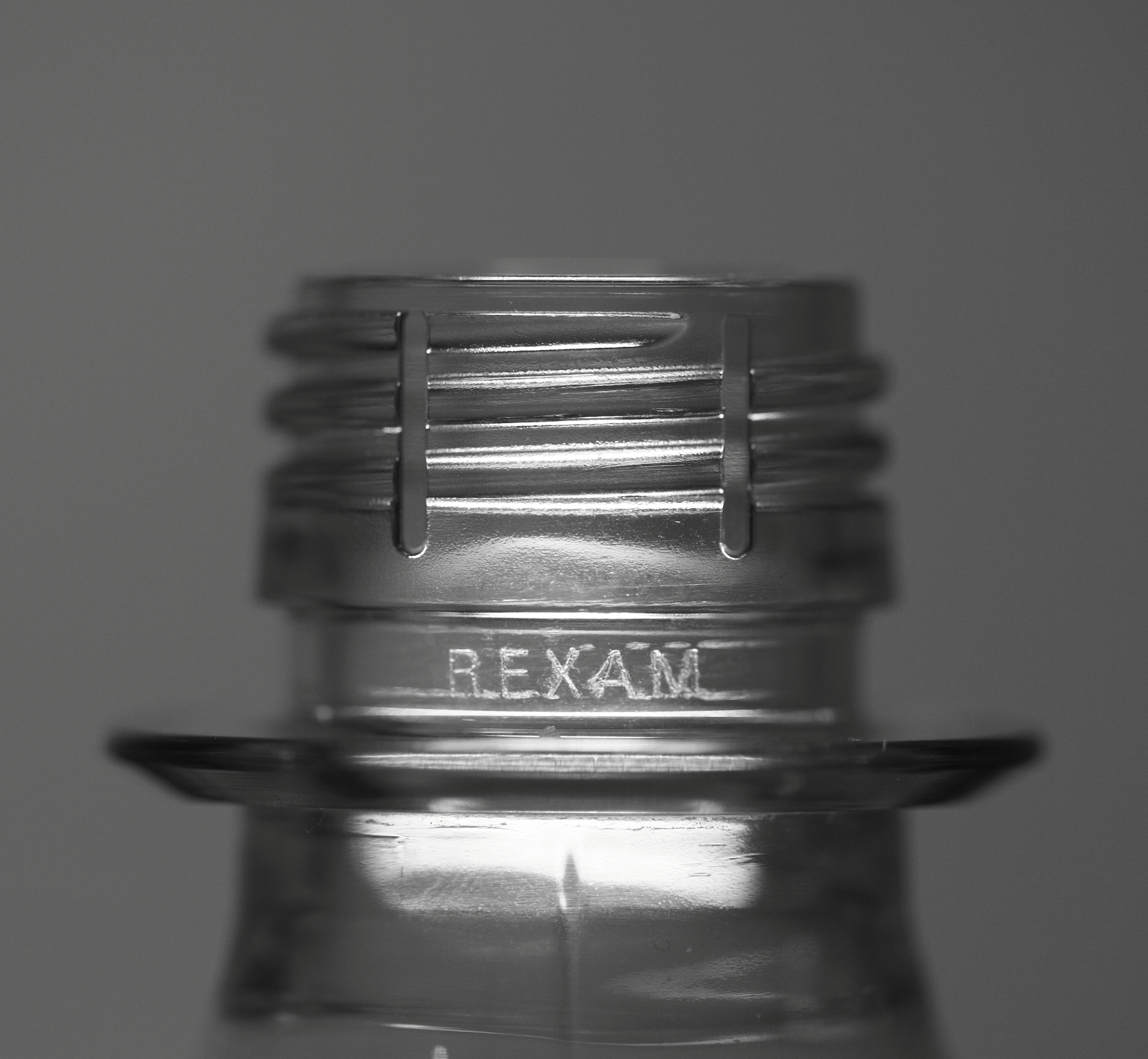 Logo of Rexam